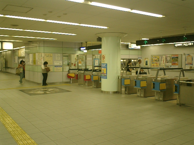 Osaka Municipal Subway Kadoma-Minami Station ticket gates